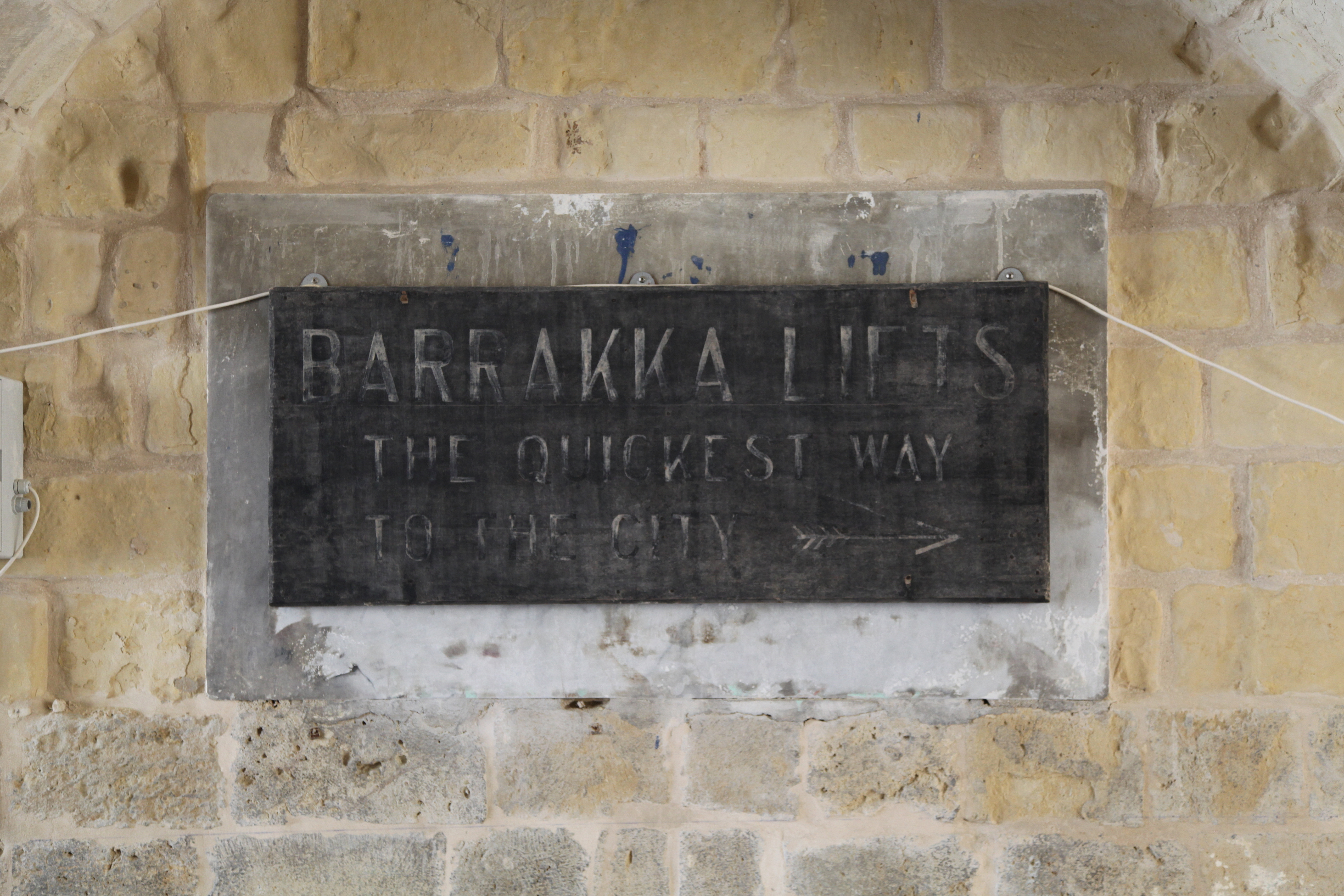 Upper Barrakka Lift tunnel, entrance from Xatt Lascaris through the Valletta Ditch to the lift, Xatt Lascaris in Valletta, Malta